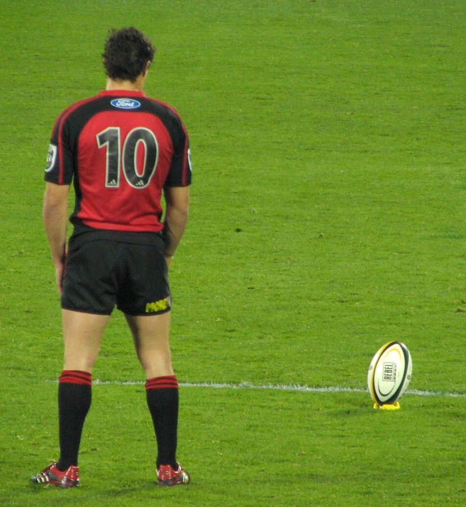 My own work,taken at Jade Stadium, Christchurch, New Zealand. Rugby Super 14, Crusaders vs Bulls, 20th May 2006. Crusaders won 35-15. Dan Carter kicking a conversion Photo taken by Maree Reveley (aka Somerslea)